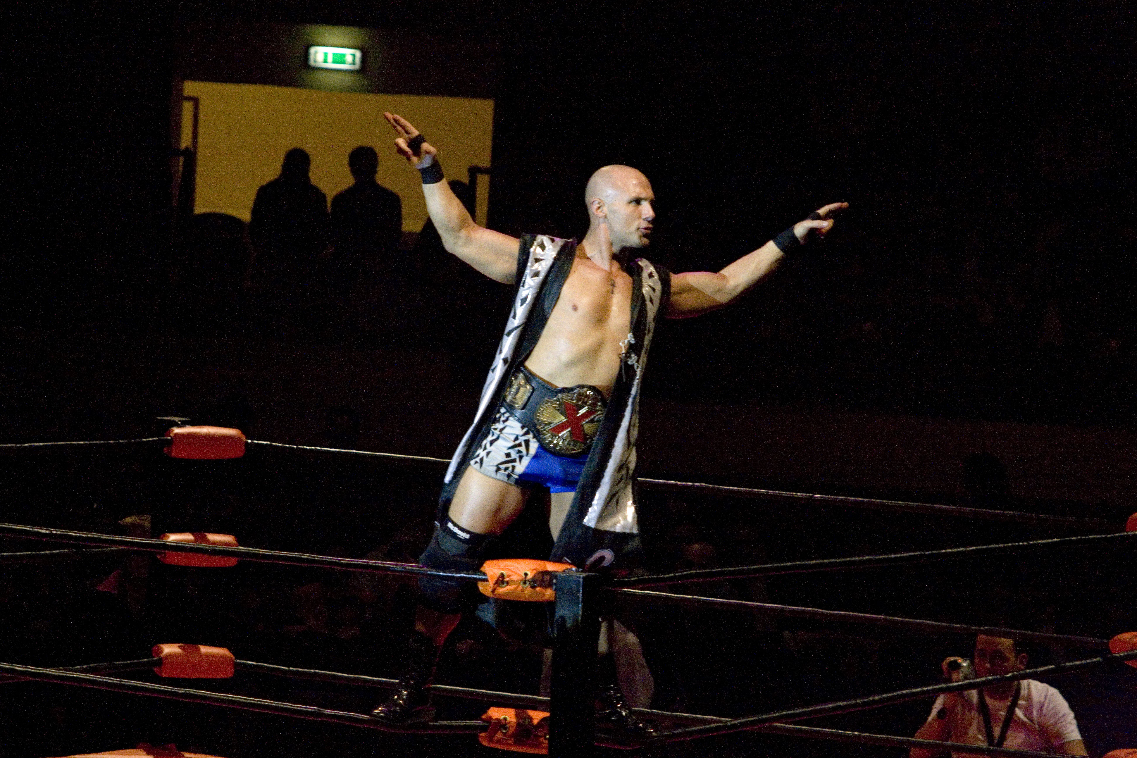 The Fallen Angel, Christopher Daniels. Photo taken at APW Impacto Total, a Mixed TNA / APW Houseshow in Lisbon, Portugal.